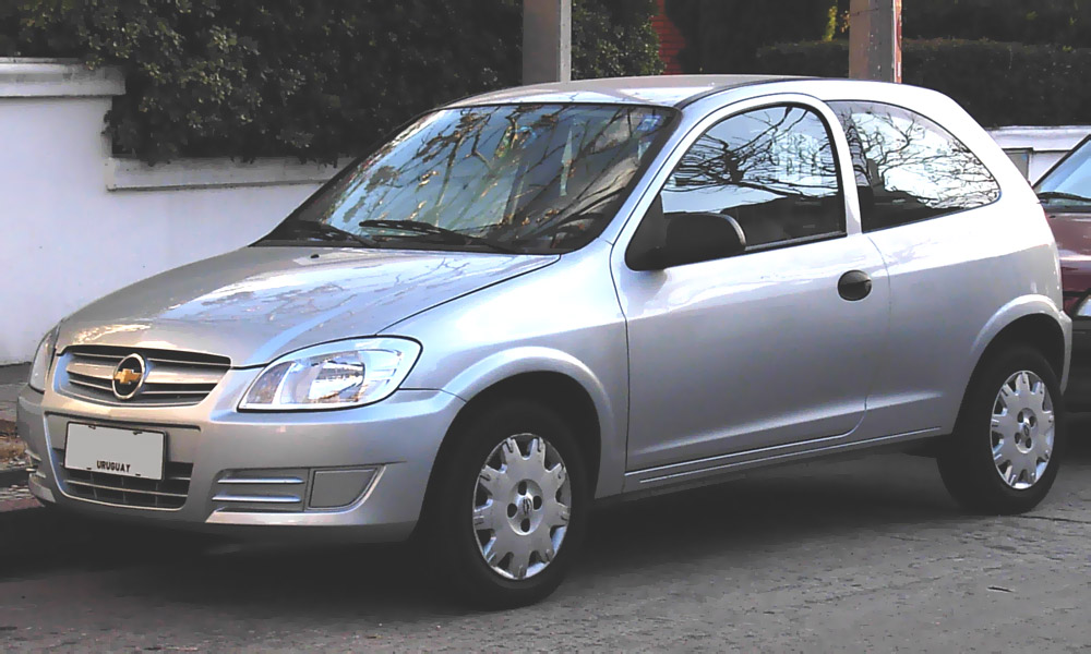 Front view of a post-2006 Chevrolet Celta 3-door, pictured in Montevideo, Uruguay.